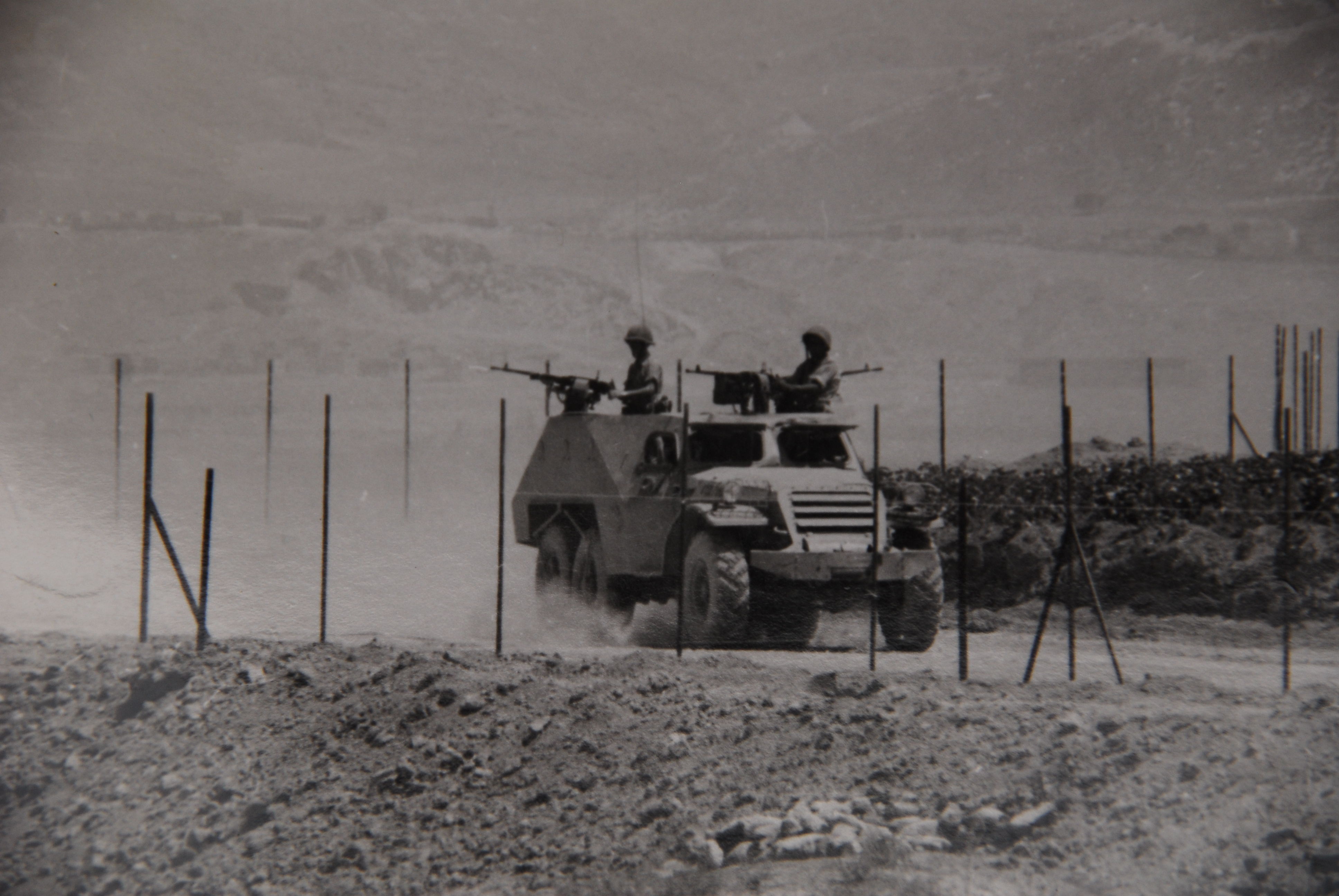 Israel Defense Forces